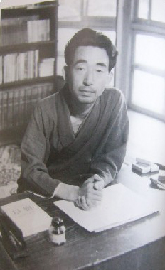 Yōjirō Ishizaka (25 January 1900 – 7 October 1986).